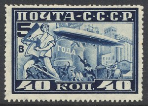 Stamp of USSR